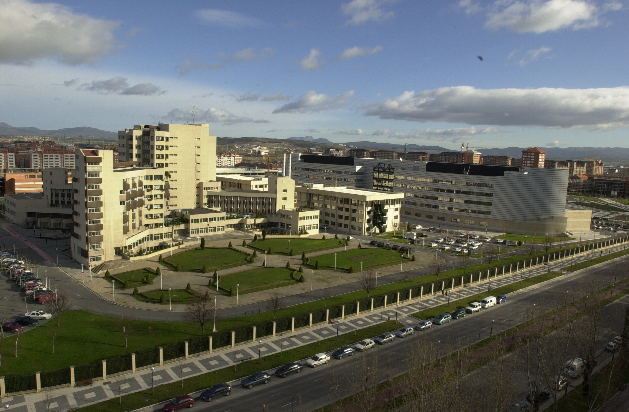 Basque Government's headquarters. Vitoria-Gasteiz, Basque Country.